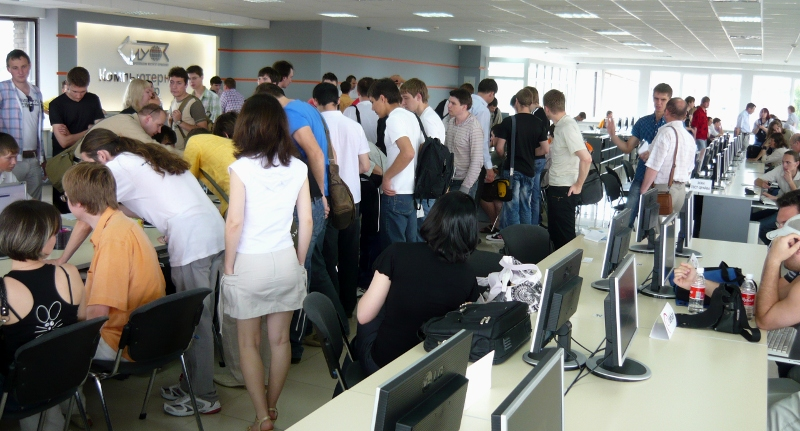 Linux InstallFest 2010 Stavropol